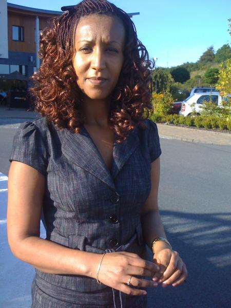 An image of Helen Berhane during a visit to the charity in 2009